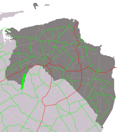 Map of Groningen with Dutch provincial road no. 979